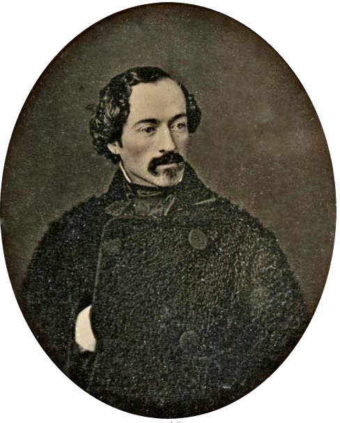 Sixth plate ambrotype of Elisha Kent Kane